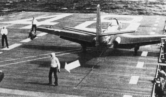 A McDonnell FH-1 Phantom fighter of U.S. Navy fighter squadron VF-17A "Phantom Fighters" is about to be catapulted from the light aircraft carrier USS Saipan (CVL-48) on 6 May 1948. Note the deck crewman enjoying the pleasures of the new jet age by warming himself with the exhaust from the Phantom´s engines (arrow by the Naval Aviation News).